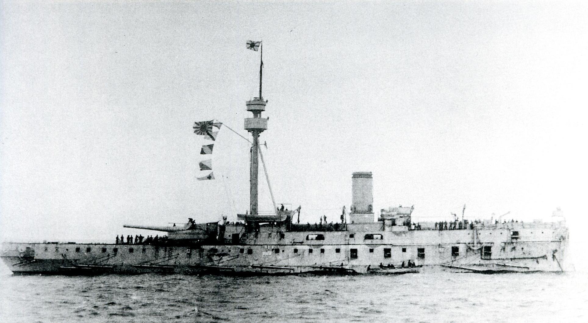 Japanese cruiser Matsushima off Pescadoes Islands, 1895